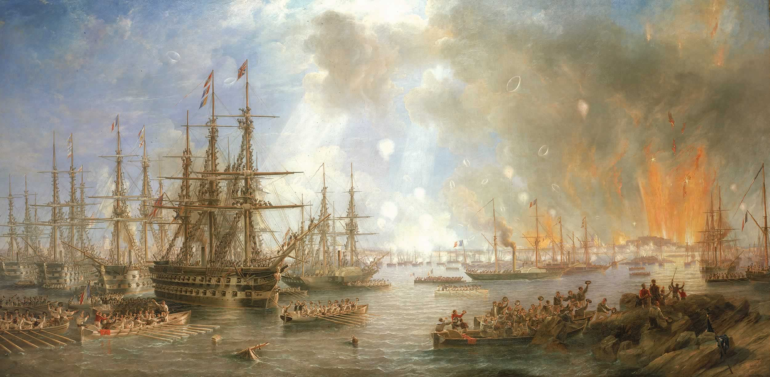 On the left are three ships of the line all in port-bow view, the 'Belle-Isle', 'Duke of Wellington', 'Tourville' (French), Then in the foreground in starboard-bow view the 'Edinburgh'. The paddle steamer 'Dragon' is in starboard-quarter view beyond her bow. To the right is a French paddle steamer, in starboard-quarter view, flying the flag of Vice-Admiral Penaud. Beyond, is also the paddle steamer 'Merlin' in starboard-quarter view, with Rear-Admiral Dundas on board. On the bottom of the frame are listed the British ships, 'Duke of Wellington', 'Belle-Isle', 'Edinburgh', 'Geyser', 'Dragon', 'Vulture' and 'Merlin'.